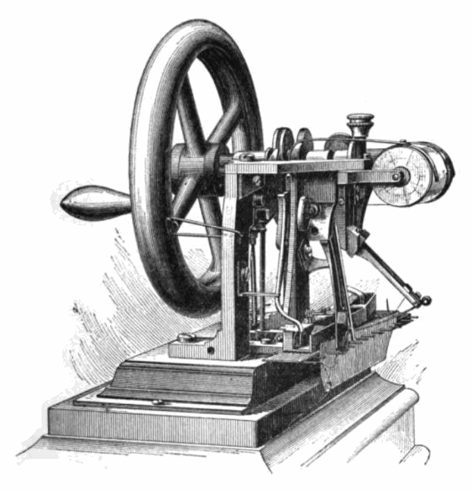 Drawing of the first patented lockstitch sewing machine, invented by Elias Howe in 1845 and patented in 1846. The machine was not successful commercially. Isaac Singer improved it and manufactured the first commercially successful machine in 1850. Howe sued Singer for patent infringement and won in 1854, and subsequently earned about 2 million dollars in royalties for his invention. Alterations: removed the caption, which read: "The first Howe sewing machine"